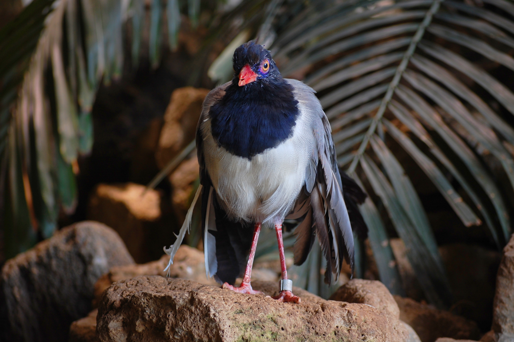 A Coral-billed Ground-cuckoo at Toronto Zoo, Ontario, Canada.